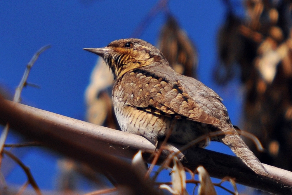 Wryneck